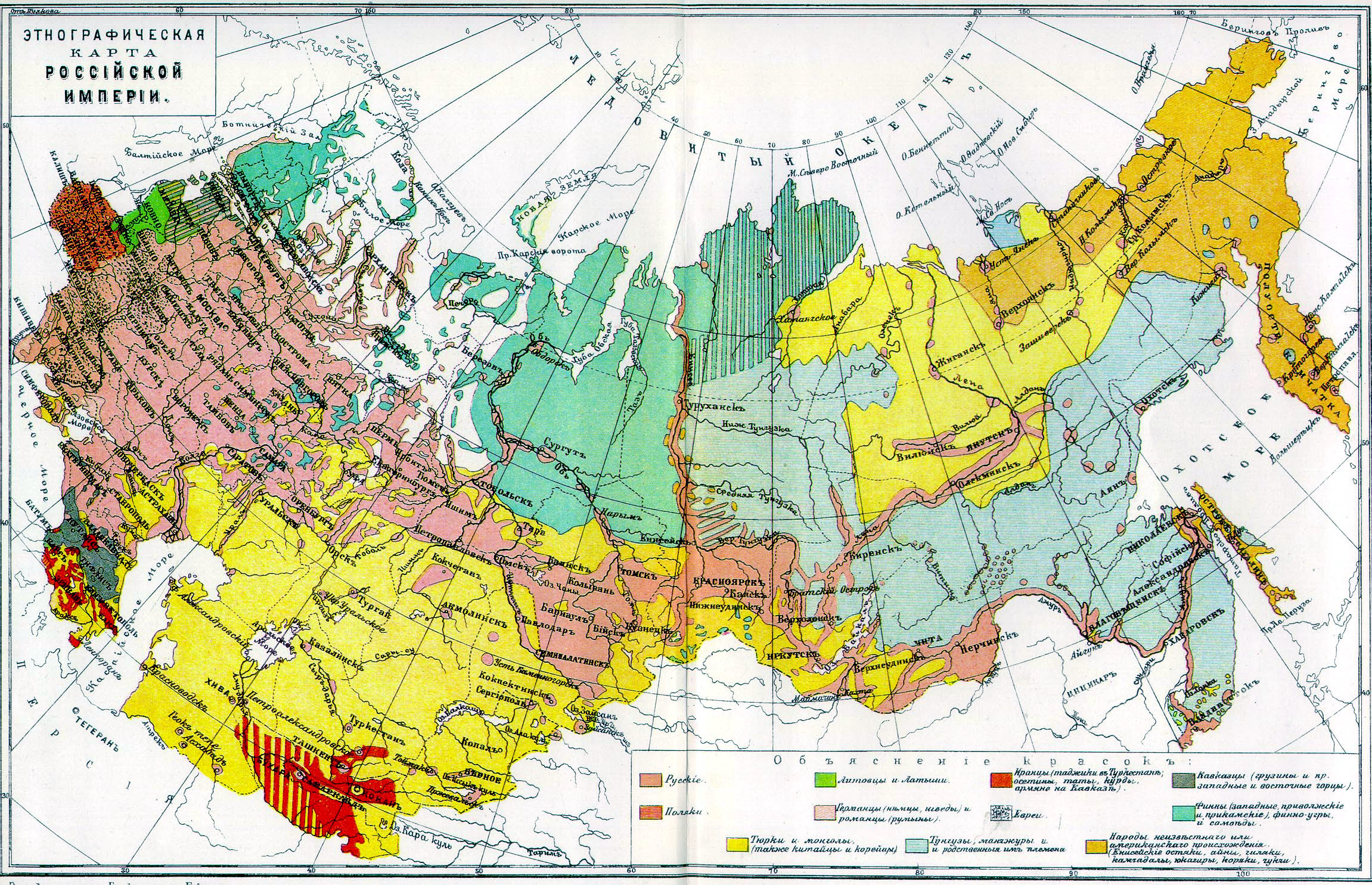 Illustration from Brockhaus and Efron Encyclopedic Dictionary (1890—1907)